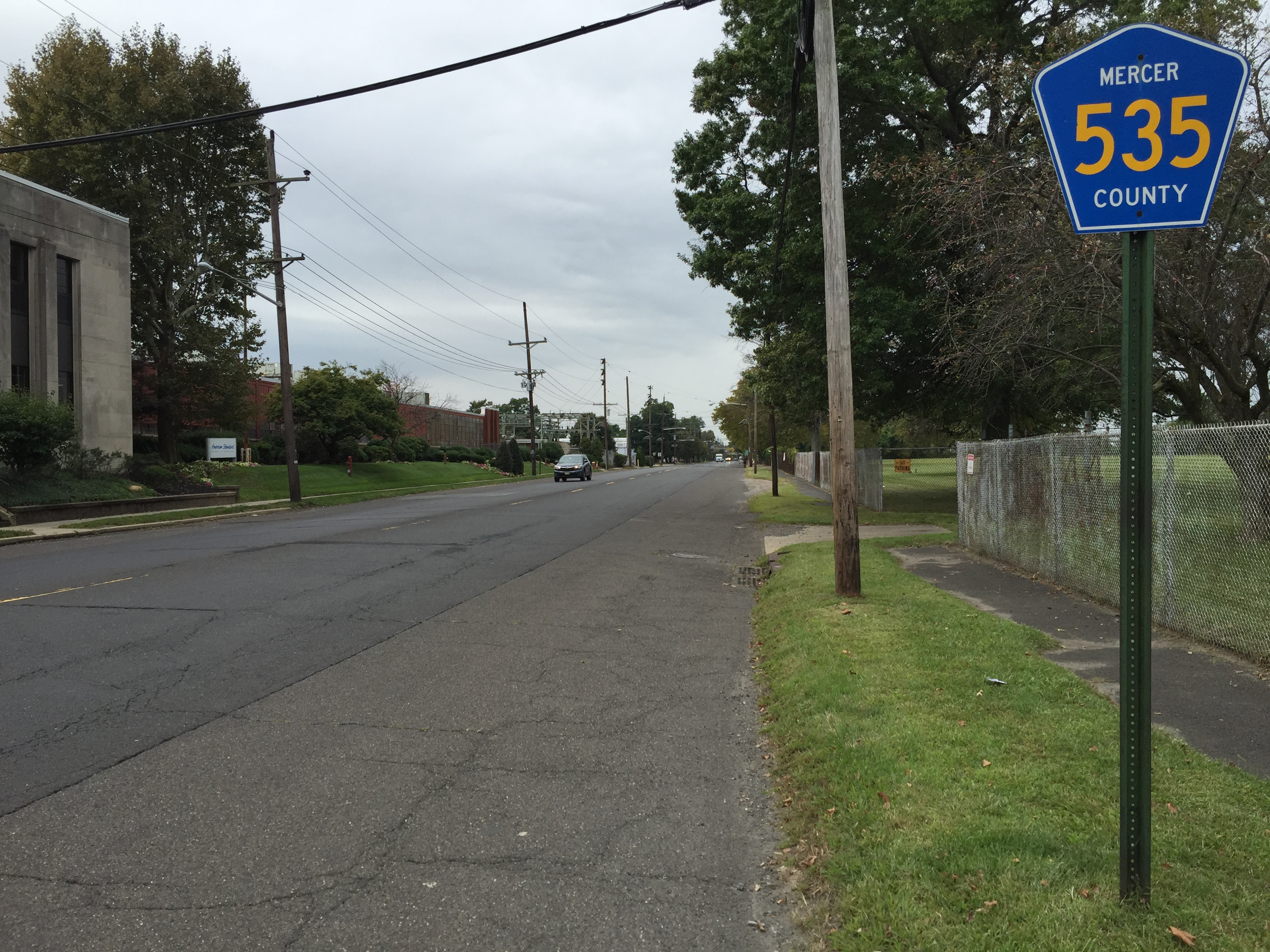 View west along East State Street (Mercer County Route 535) between Fairgrounds Road and Sculptors Way in Hamilton Township, Mercer County, New Jersey